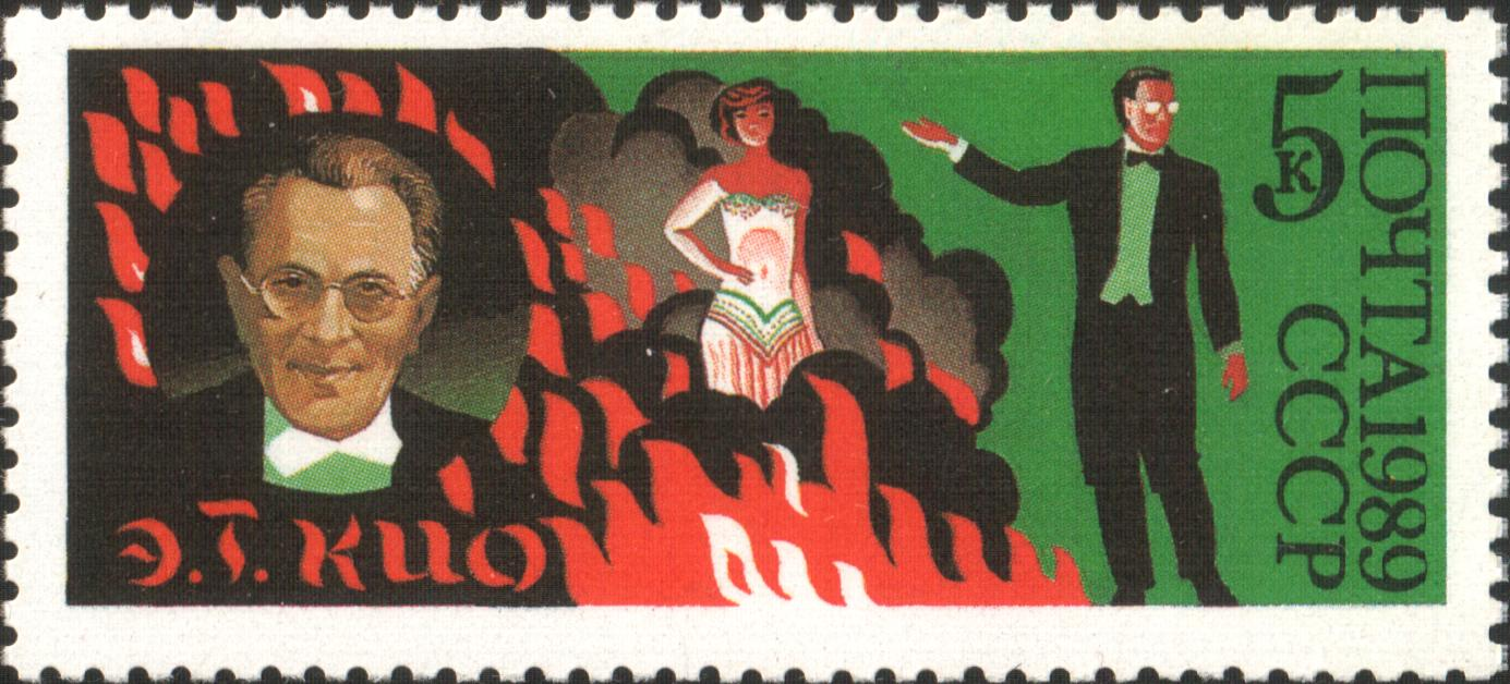 A USSR stamp